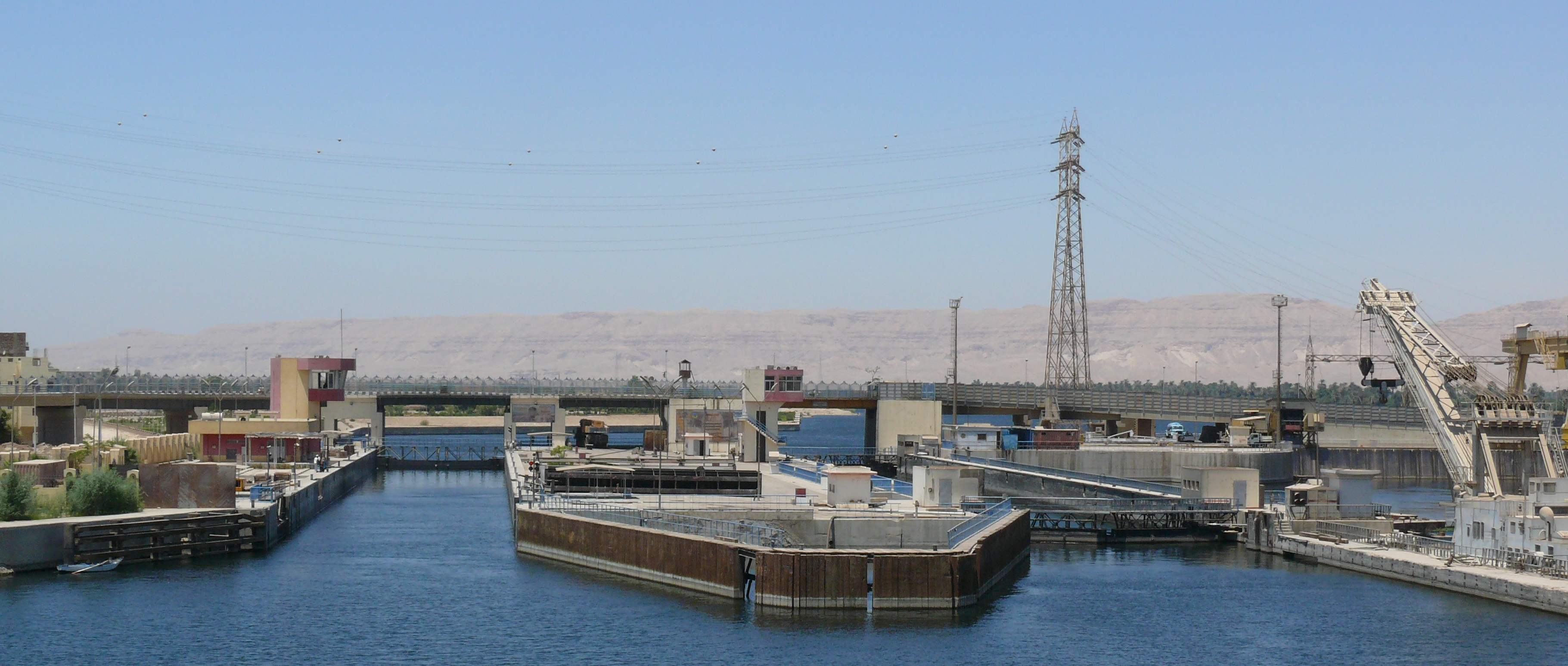 The canal lock complex at Esna.